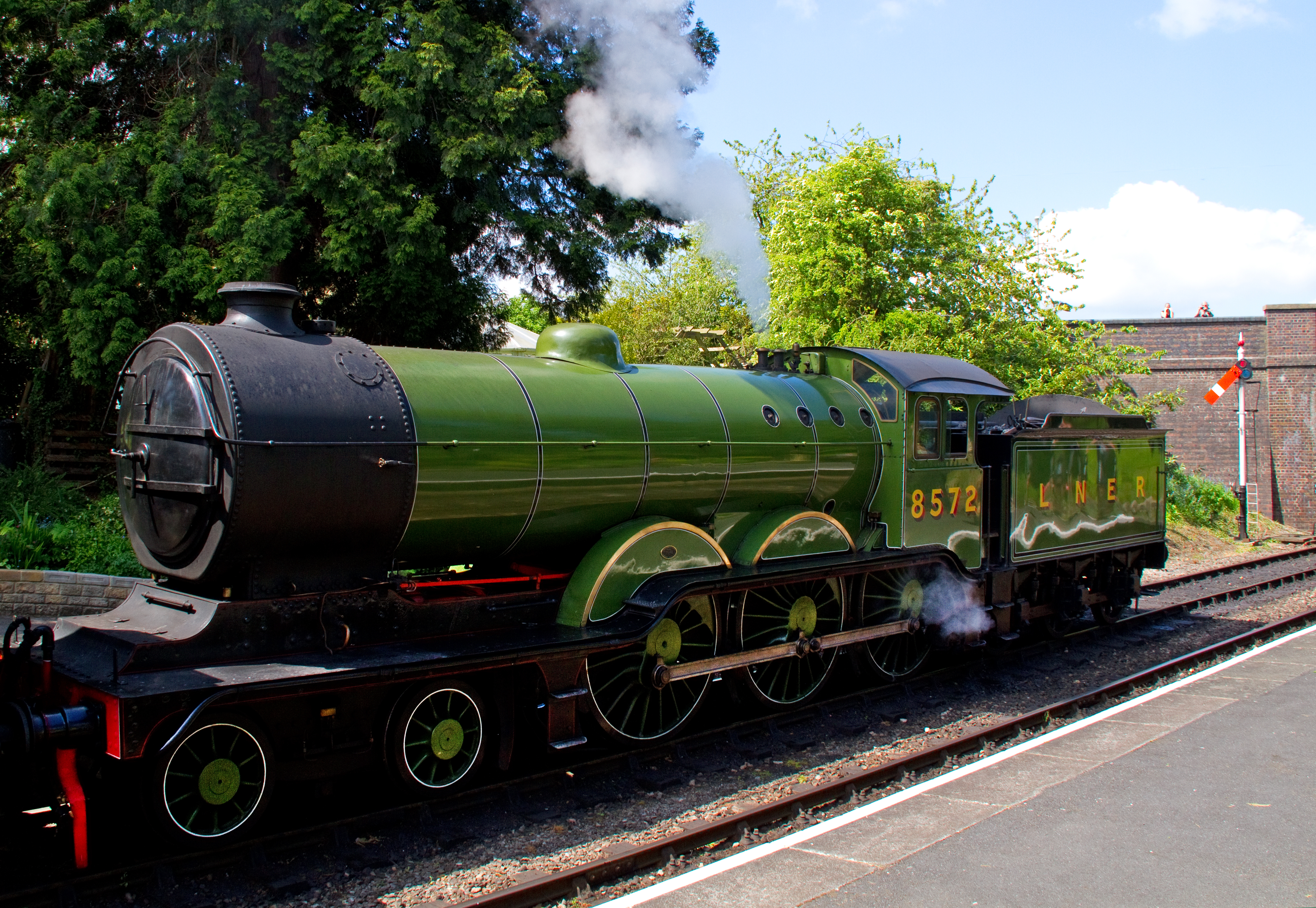 LNER B12 8572 at Winchcombe